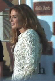 Canadian actress Rachelle Lefevre at Grauman's Egyptian Theatre in Hollywood.